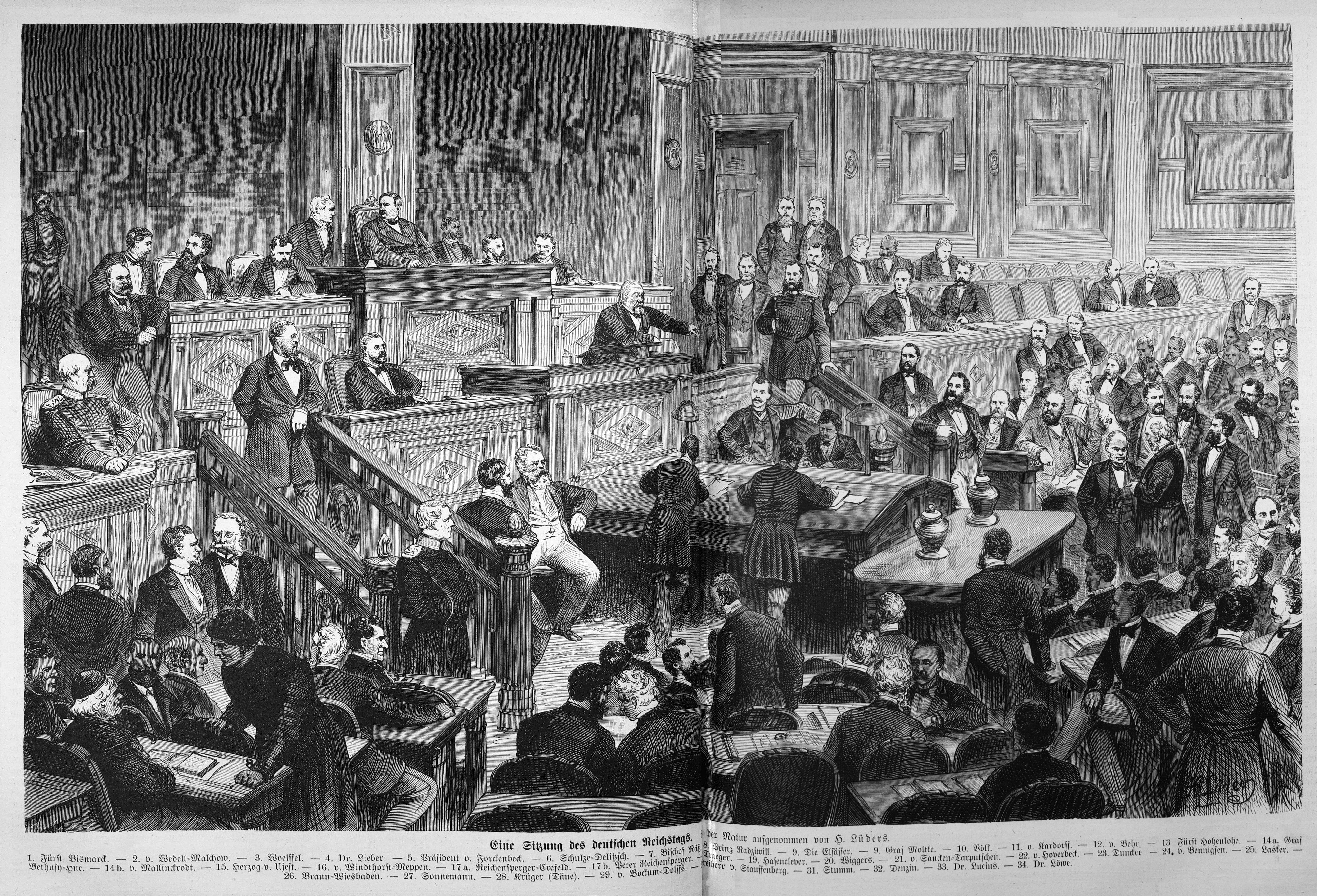 caption: "Eine Sitzung des deutschen Reichstags.Nach der Natur aufgenommen von H. Lüders.1. Fürst Bismarck. – 2. v. Wedell-Malchow. – 3. Woelffel 4. Dr. Lieber. – 5. Präsident v. Forckenbeck. – 6. Schulze-Delitzsch. –7. Bischof Räß. – 8. Prinz Radziwill. – 9. Die Elsässer – 9. Graf Moltke – 10. Völk – 11. v. Kardorff – 12. v. Behr. – 13. Fürst Hohenlohe – 14 a. Prinz Bethusy-Huc. – 14 b. v. Mallinckrodt. – 15. Herzog v. Ujest. – 16. v. Windthorst-Meppen. – 17 a. Reichensperger-Crefeld. – 17 b. Peter Reichensperger – 18. Traeger. – 19. Hasenclever. – 20. Wiggers. – 21. v. Saucken-Tarputschen. – 22. v. Hoverbeck. – 23. Duncker. – 24. v. Bennigsen. 25. Lasker. – 26. Braun-Wiesbaden – 27. Sonnemann. – 28. Krüger (Däne) 29. v. Bockum-Dolffs. – 30. Freiherr v. Stauffenberg. – 31. Stumm. – 32. Denzin. 33. Dr. Lucius. – 34. Dr. Löwe."